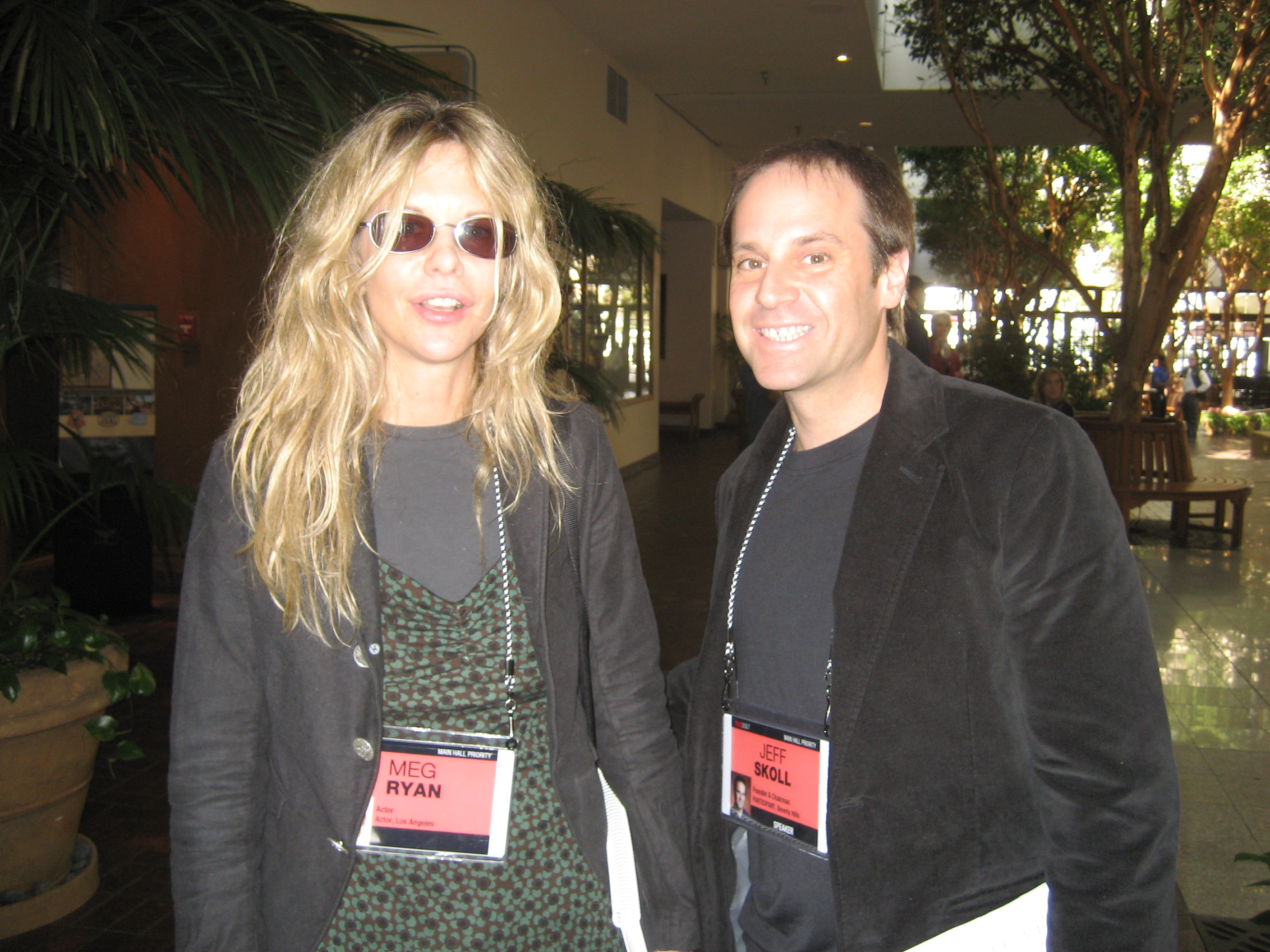 Meg Ryan and Jeff Skoll